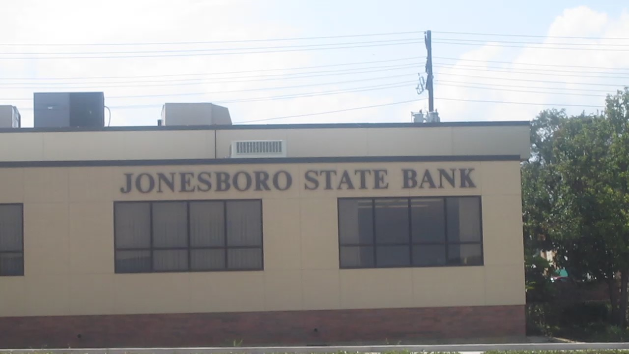 Jonesboro State Bank in Jonesboro, Louisiana